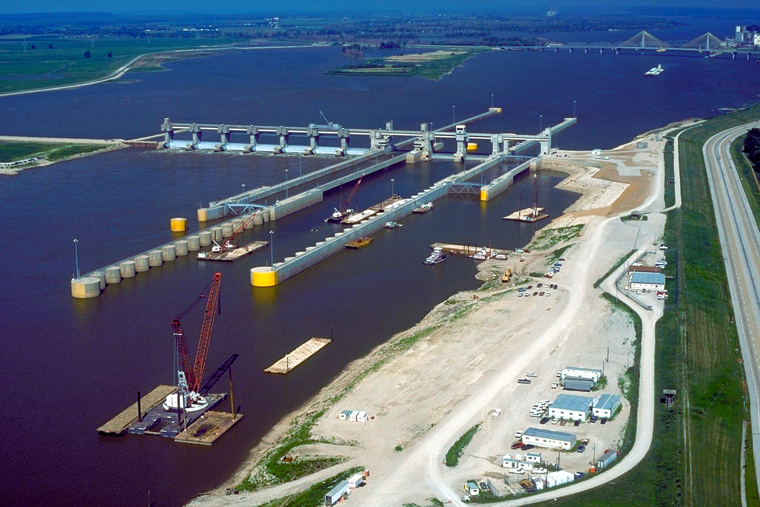 The Melvin Price Locks and Dam, also known as Lock and Dam No. 26, on the Mississippi River at Alton, Illinois, north of St. Louis, Missouri, USA. View is upriver to the northwest. The Clark Bridge can be seen upriver.